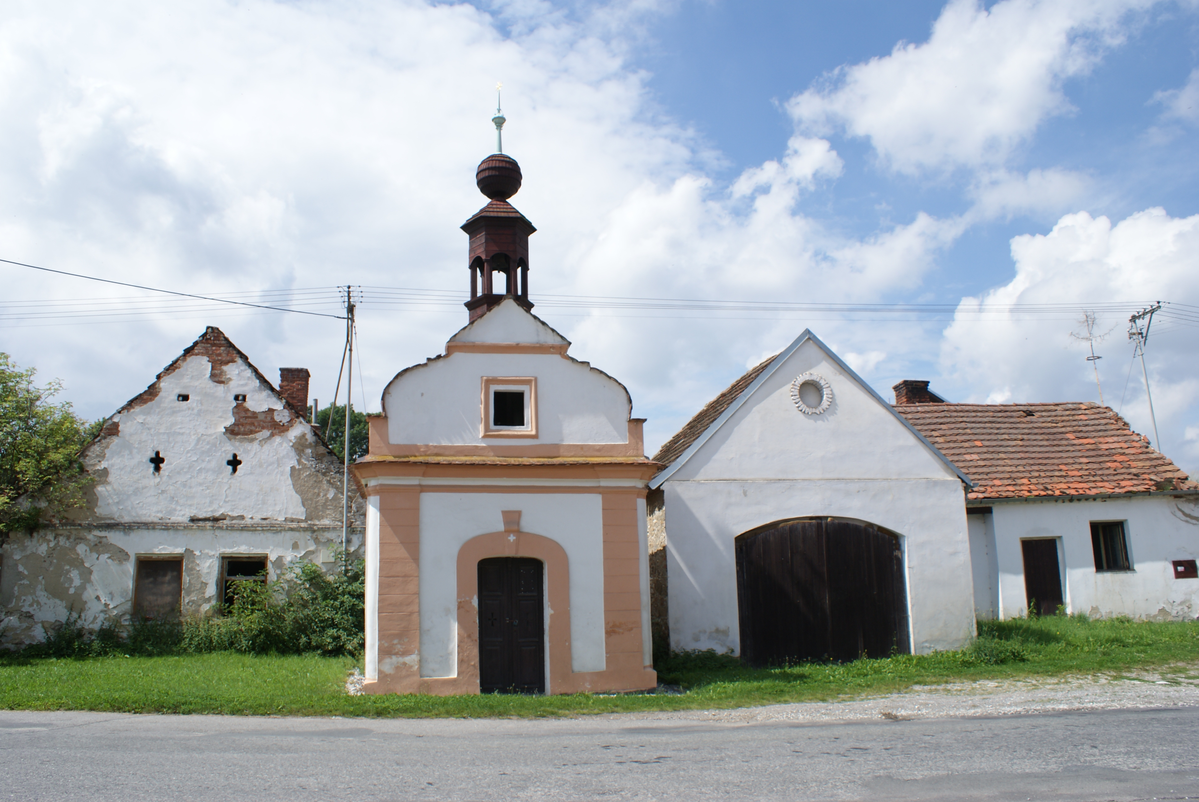 Malá Turná, a village in Strakonice District, Czech Republic, chapel.